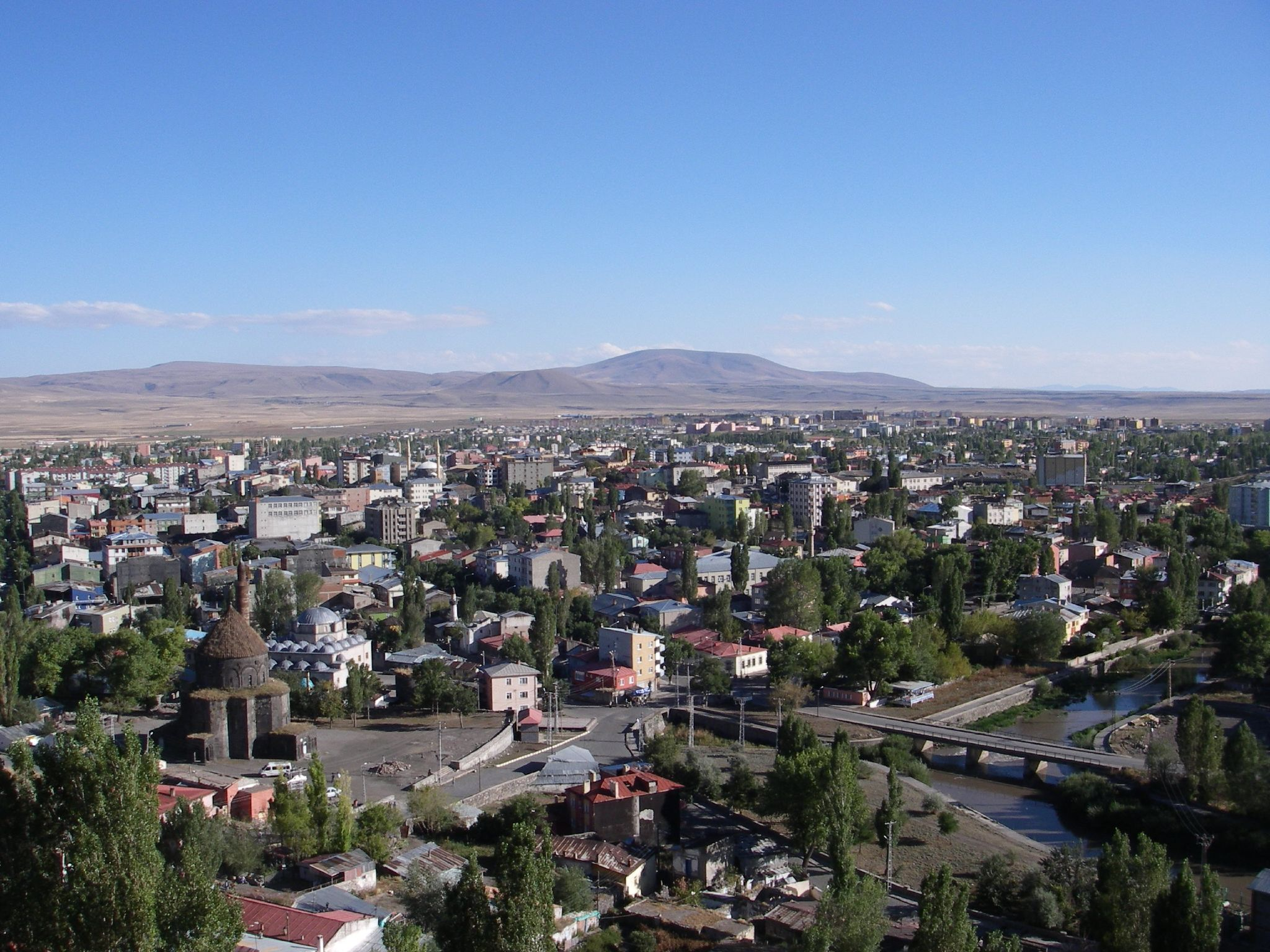 Kars, a city in northeast Turkey and the capital of Kars Province.Kars